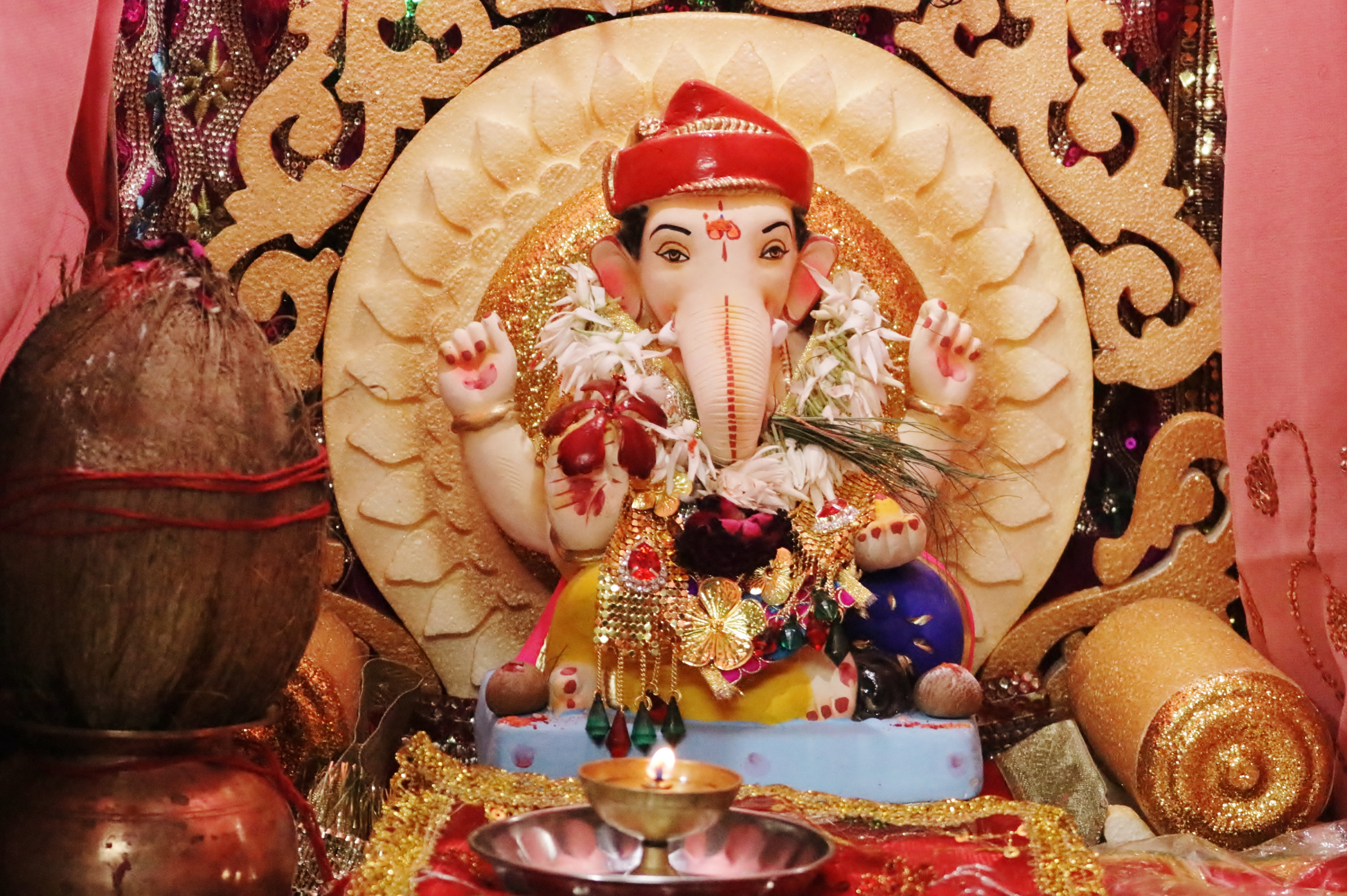 Ganesh Chaturthi is one of the most famous festival of Vadodara, where almost every Hindu household brings Idol of Lord Ganesh for 9 days and offer prayers & prasaad and then immerse the idol on the last day known as Ganesh Visarajan [immersion]